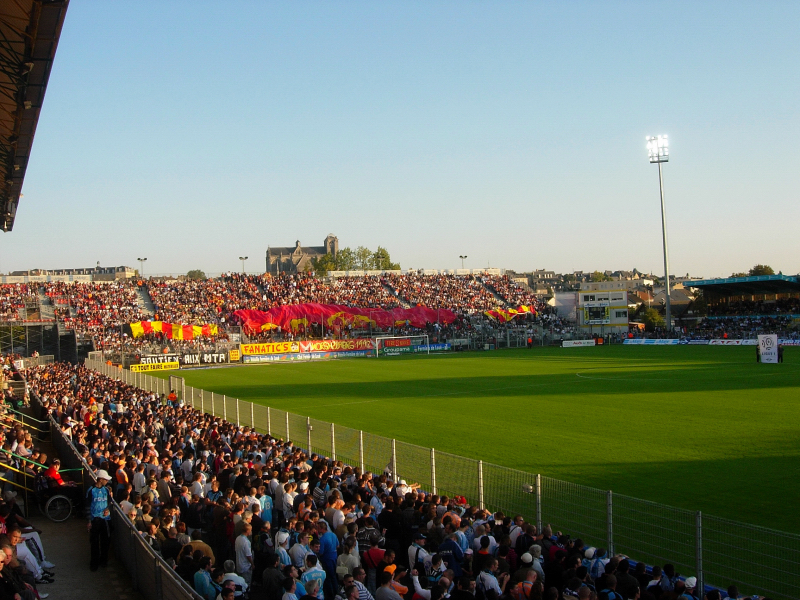 Le stade Léon-Bollée lors du match MUC72-OM au cours de la saison 2008/2009.